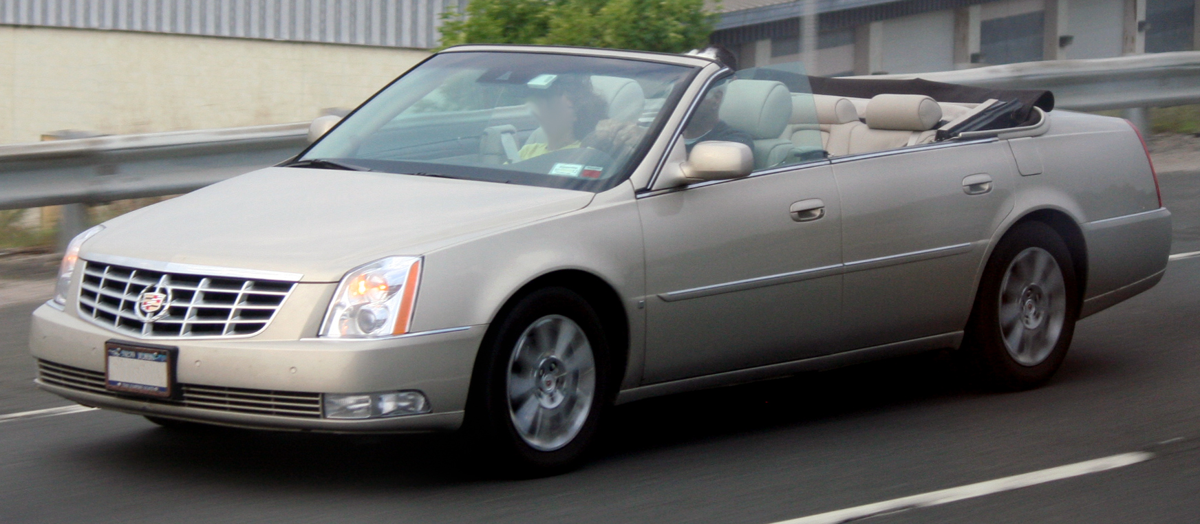 2009-2011 Cadillac DTS four-door convertible conversion. Presumably carried out by Droptop Customs.